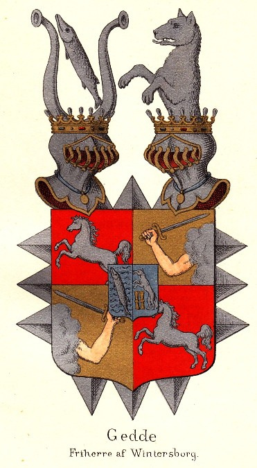 Coat of arms of the Baron Giedde of Wintersborg family